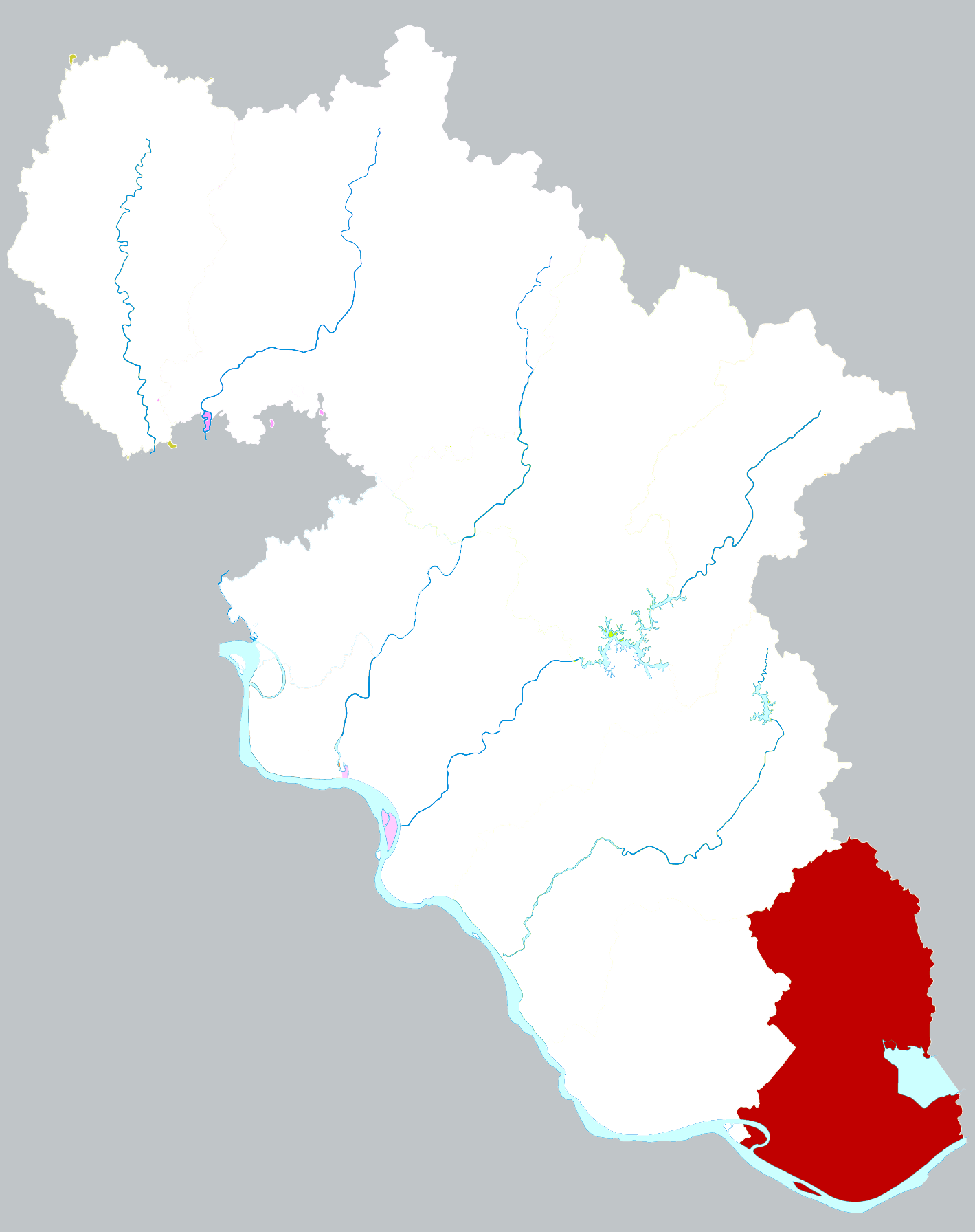 Location of Huangmei county in Huanggang city, China